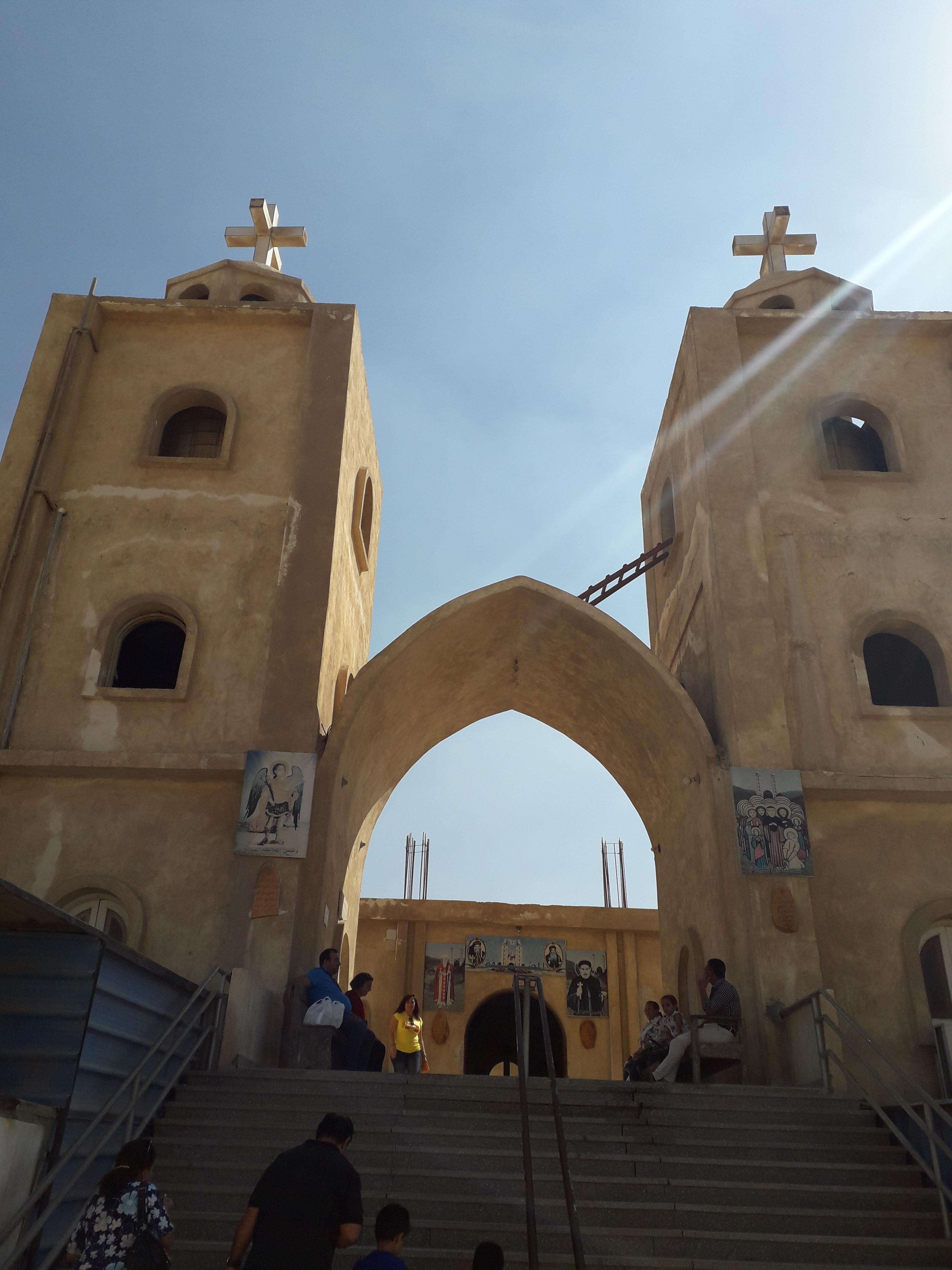 Monastery of Gabriel Abu Khashaba